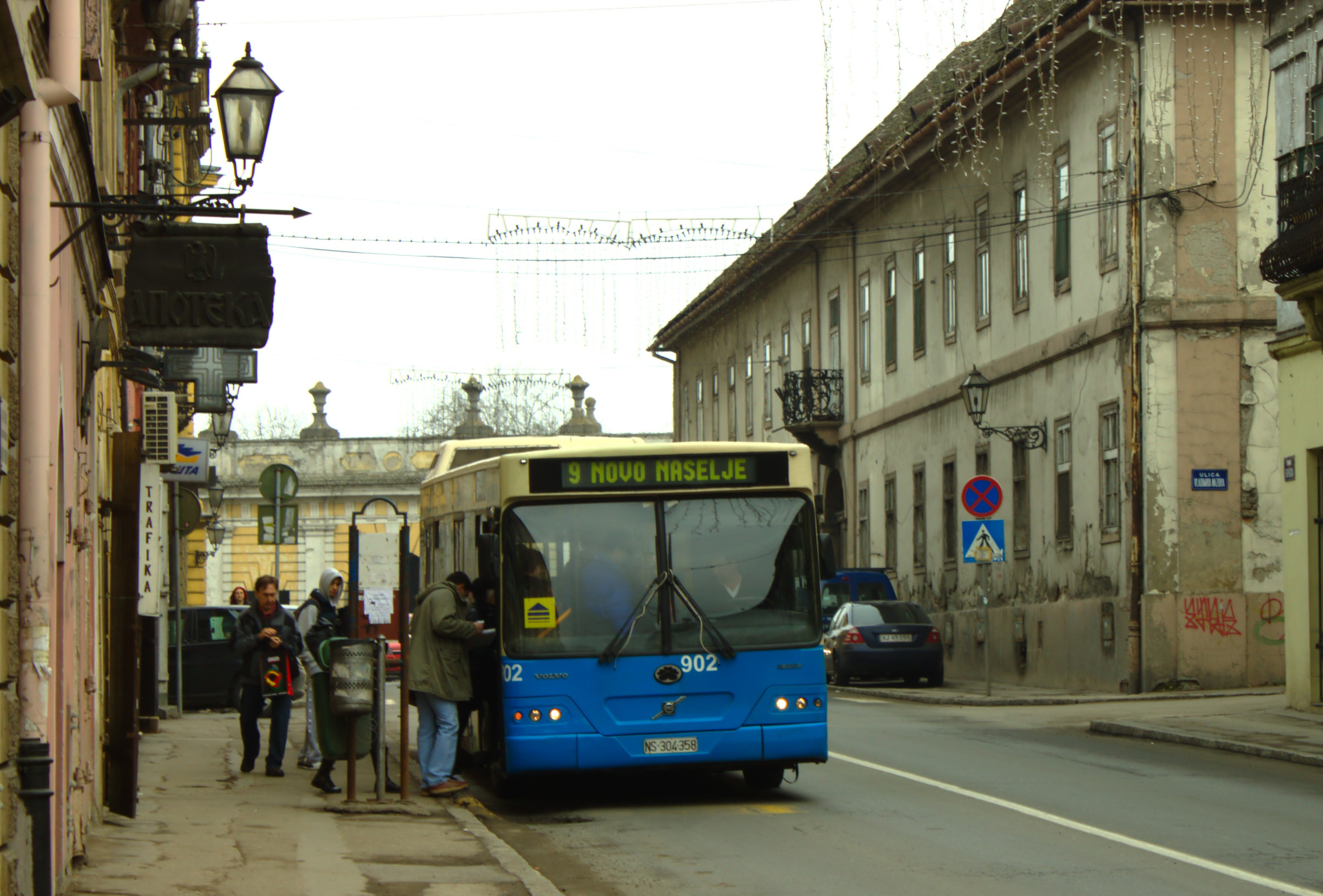 A city bus on Beogradska street in Petrovaradin, Novi Sad, Serbia